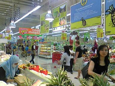 Carrefour Bangkok